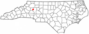 Category:North Carolina Dot Maps